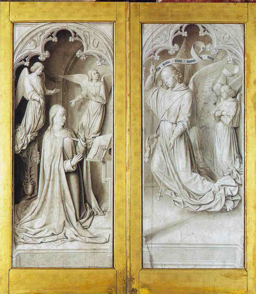 The Moulins Triptych (Closed) Panel, 157 x 283 cm Cathédrale Notre-Dame de Moulins